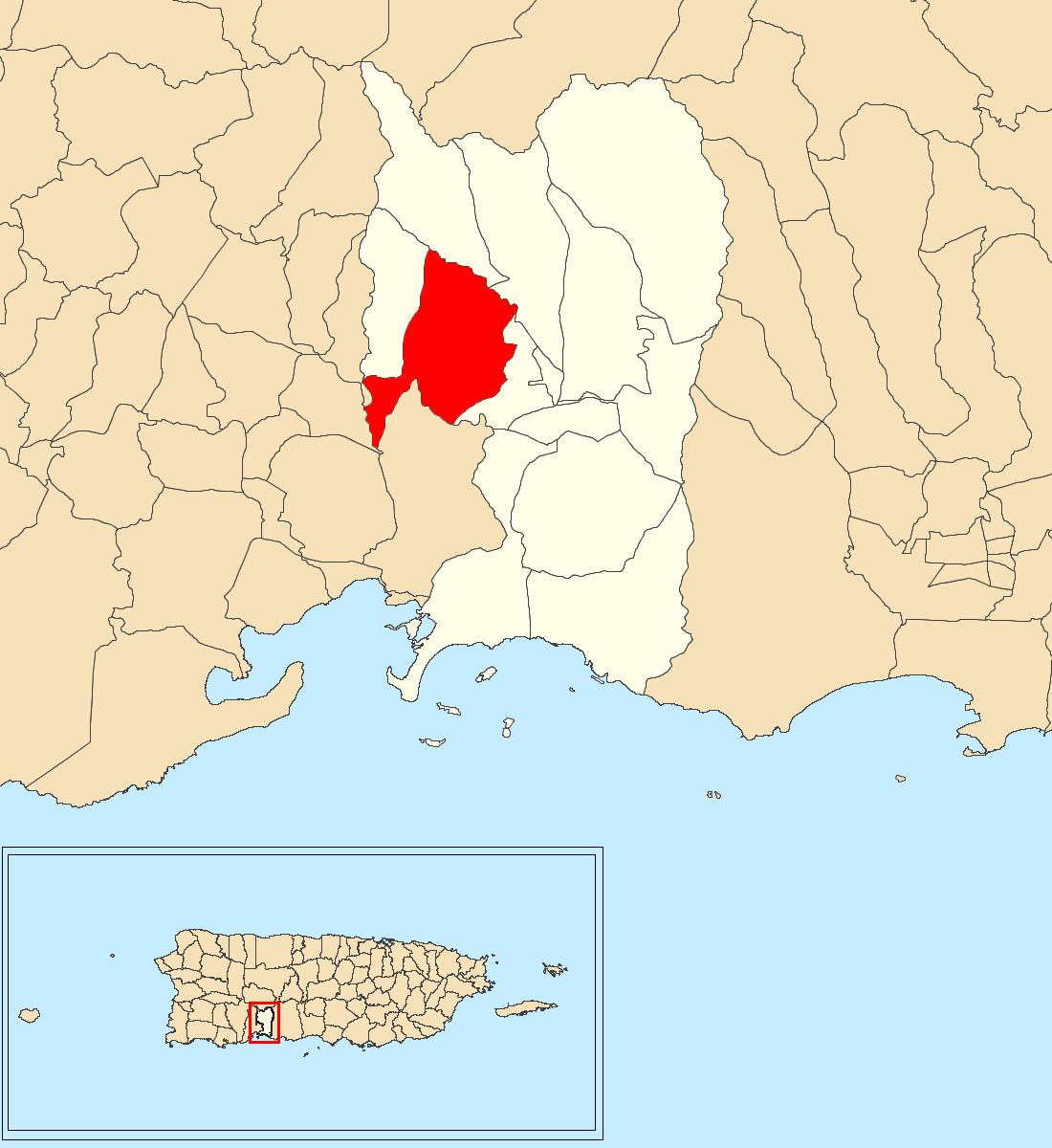 Santo Domingo, Peñuelas, Puerto Rico locator map